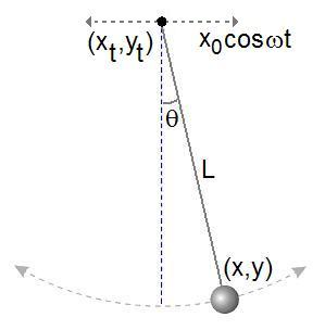 A simple pendulum where top end of strin undergoes SHM